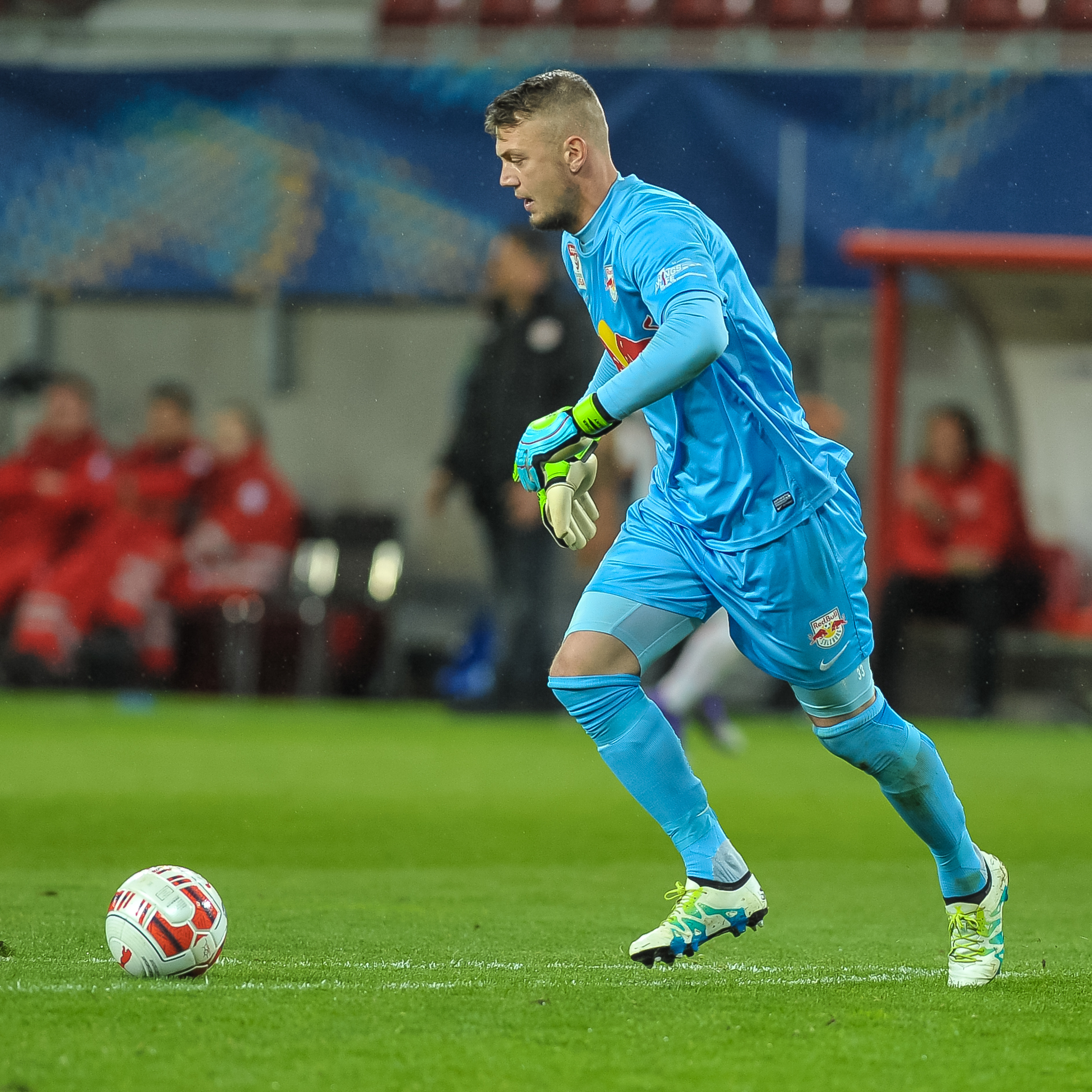 ÖFB Samsung Cup-Finale - FC Admira Wacker Mödling vs FC Red Bull Salzburg am 19. Mai 2016 in Klagenfurt. Bild zeigt Torhueter Alexander Walke (RBS).